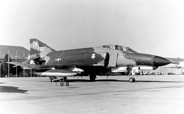 F-4E 68-0537 of the 353d Tactical Fighter Squadron, Torrejon Air Base Spain.